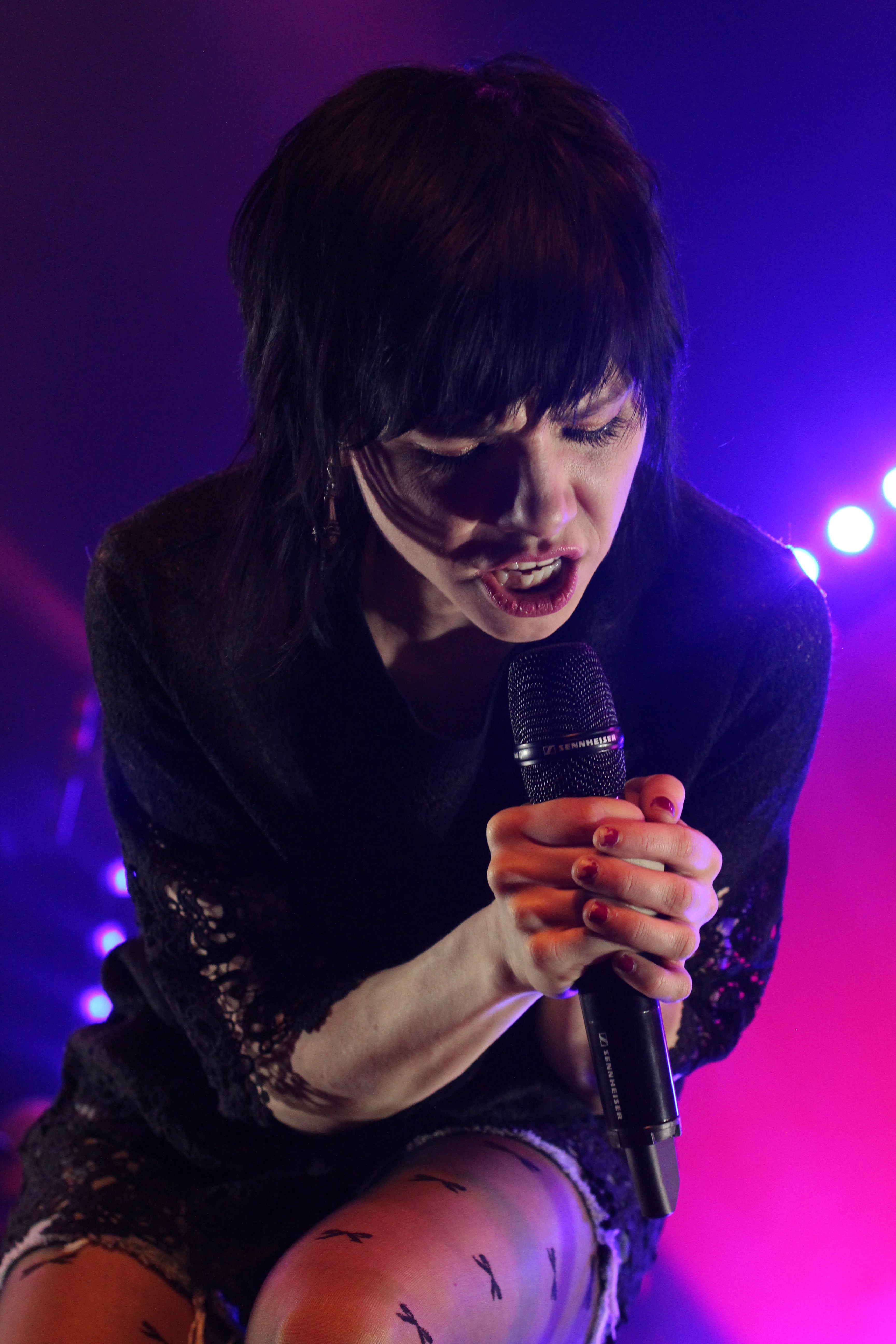 Carly Rae Jepsen at Gothic Theatre on 03.05.16